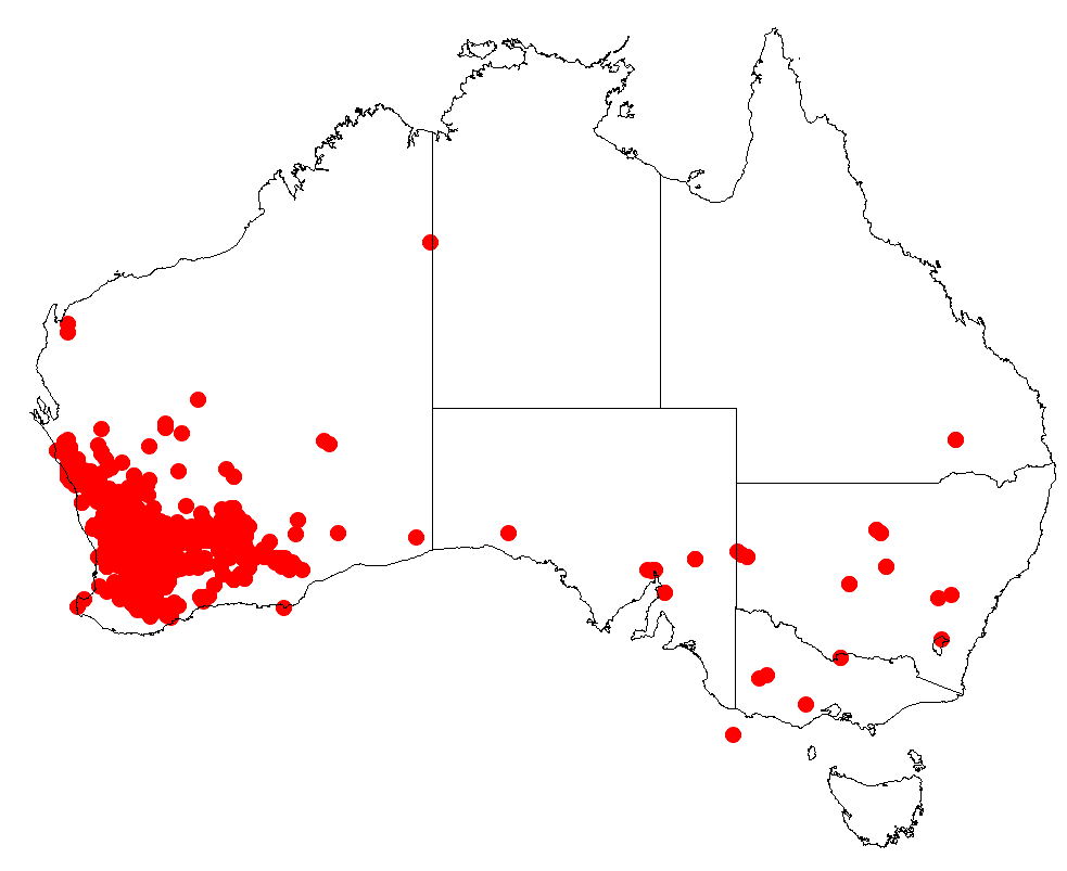 Acacia acuminata Occurrence data from Australasia Virtual Herbarium downloaded from on 8 December 2018